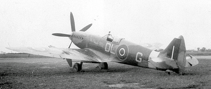 Supermarine Spitfire Mk 2I, 91 Squadron.